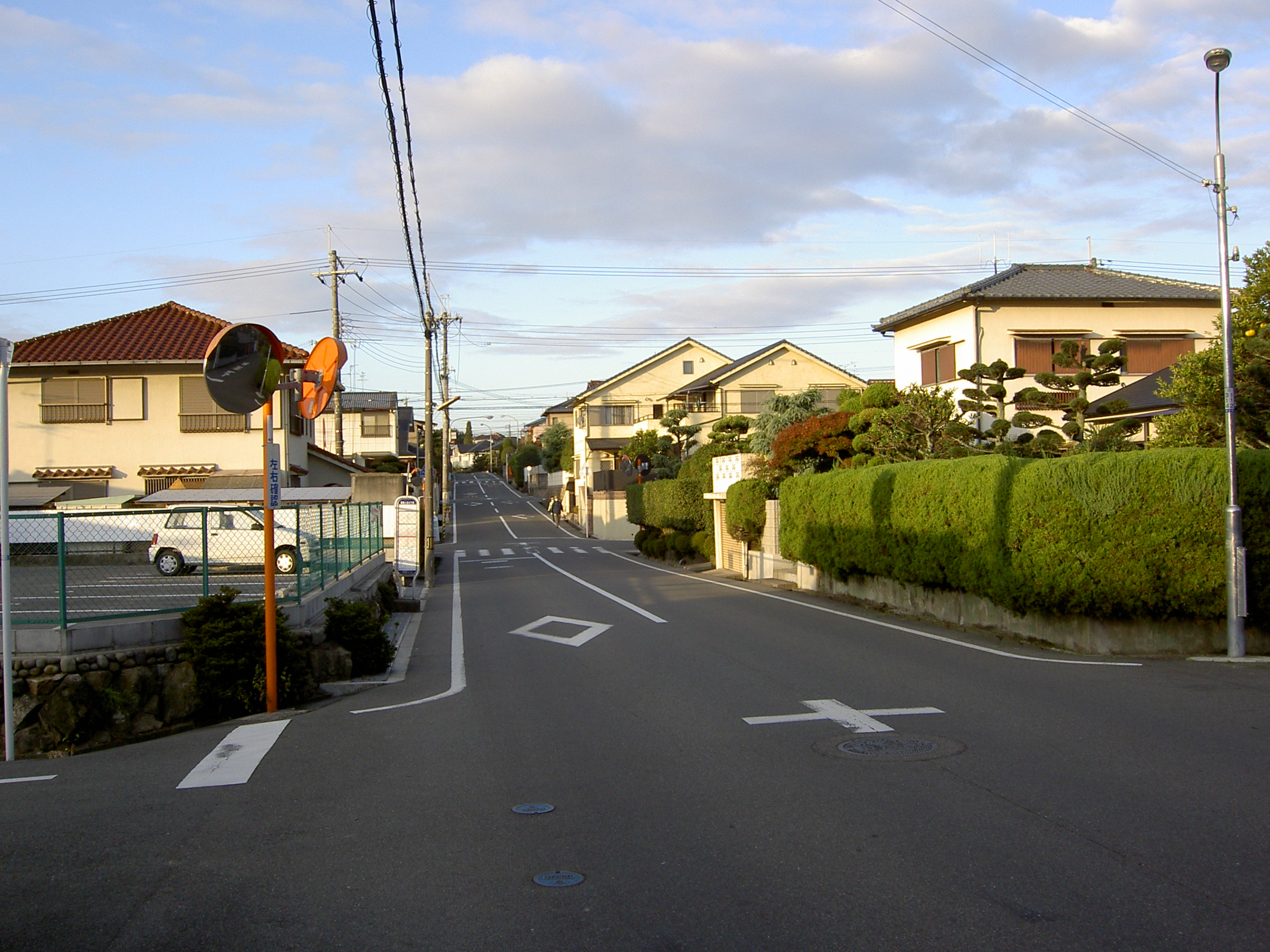 The single-family house area of Kori housing complex. Hirakata-shi, Osaka Japan.